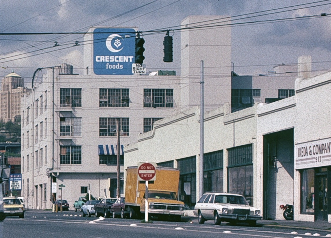 The Crescent Foods warehouse or manufacturing plant in Seattle, on Maynard Avenue S. at S. Dearborn Street, in 1983. The building was constructed in 1926 for the Knickerbocker Company, but the Crescent Manufacturing Company acquired it in the 1940s. After Crescent was bought by McCormick & Company, in 1989, it moved out of the building, in 1990. The building is currently (2000s and 2010s) known as the RDA Building. This view is looking north from Airport Way. The buildings in the foreground, on the east side of Maynard Avenue south of Charles Street, have all been demolished.